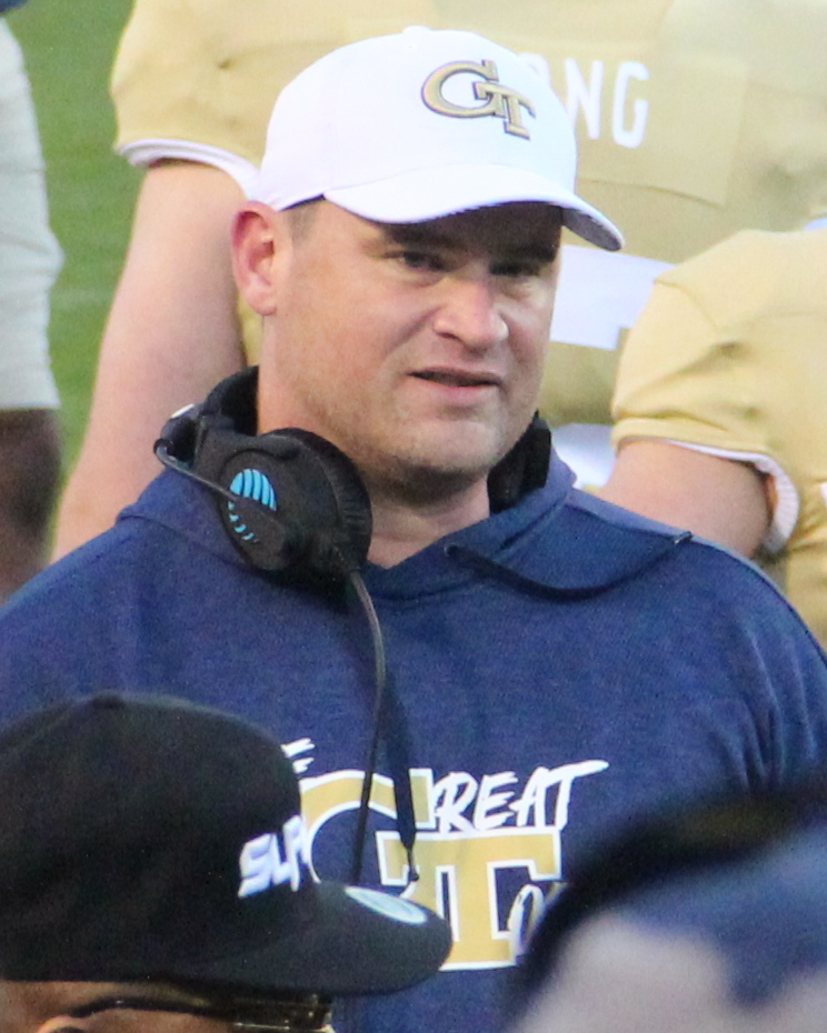 GT Football Spring Game 2019